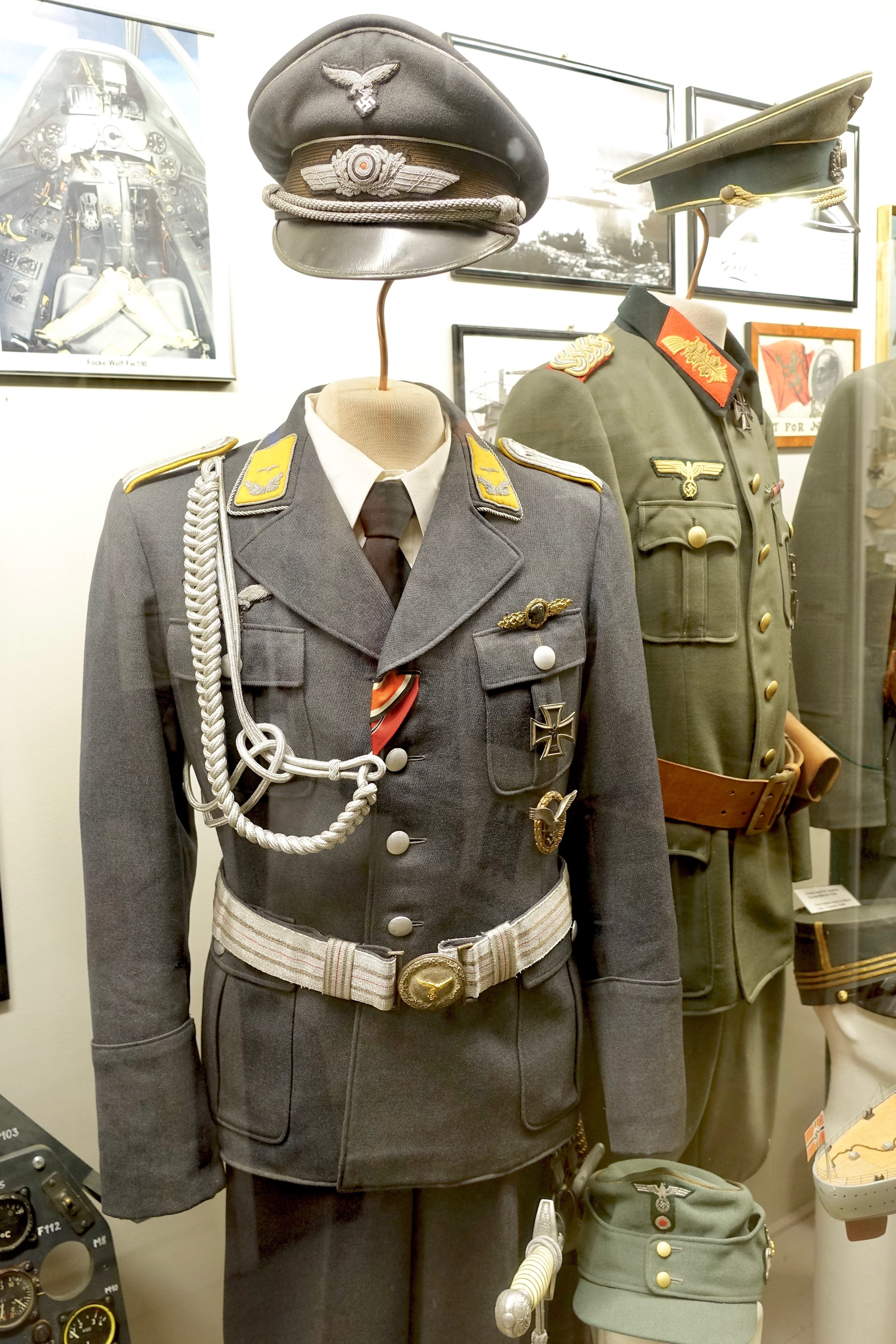 German WW2 Luftwaffe uniform. Ceremonial full-dress parade tunic with aiguillette (Schnur) and Luftwaffe imperial eagle (Fliegender Adler / Luftwaffeadler) on chest, ribbons (Ordensband) of the Iron Cross and the Eastern Front Medal (Medaille Winterschlacht im Osten 1941/42, Ostmedaille) in button hole, gold grade Luftwaffe Reconnaissance Clasp (Front Flying Clasp of the Luftwaffe, Luftwaffe Frontflugspange für Aufklärer), Iron Cross, and Luftwaffe Pilot/Observer Badge (Flugzeugführer- und Beobachterabzeichen) on chest. Rank insignia of Leutnant (Second Lieutenant, Pilot Officer) on collr patches. Rank insignia of Leutnant (Second Lieutenant, Pilot Officer) on collar patches. Luftwaffe peaked visor cap (Schirmmütze). Also German WW2 Wehrmacht General's uniform (in the background). Photo taken on 8 May 2019 at Lofoten War Memorial Museum (Lofoten Krigsminnemuseum) in Svolvær, Norway. The museum exhibits uniforms, militaria, smaller items, memorabilia, etc. from World War II and German-occupied Norway 1940–1945.